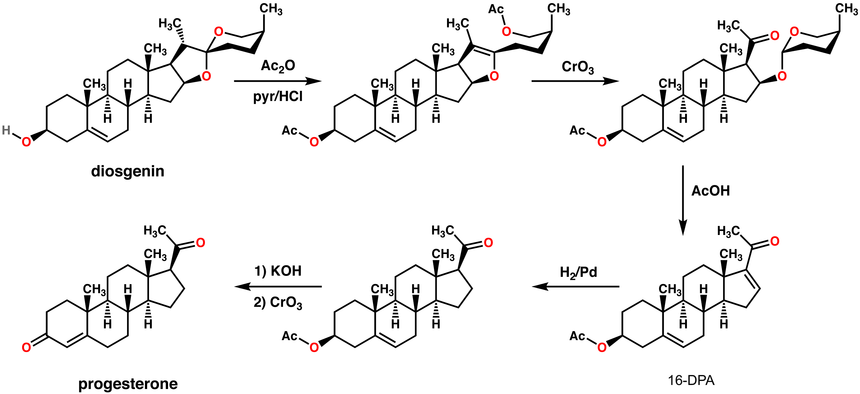 The Marker semi-synthesis of progesterone from diosgenin. Marker RE, Krueger J (1940). "Sterols. CXII. Sapogenins. XLI. The Preparation of Trillin and its Conversion to Progesterone". J. Am. Chem. Soc. 62 (12): 3349–3350.